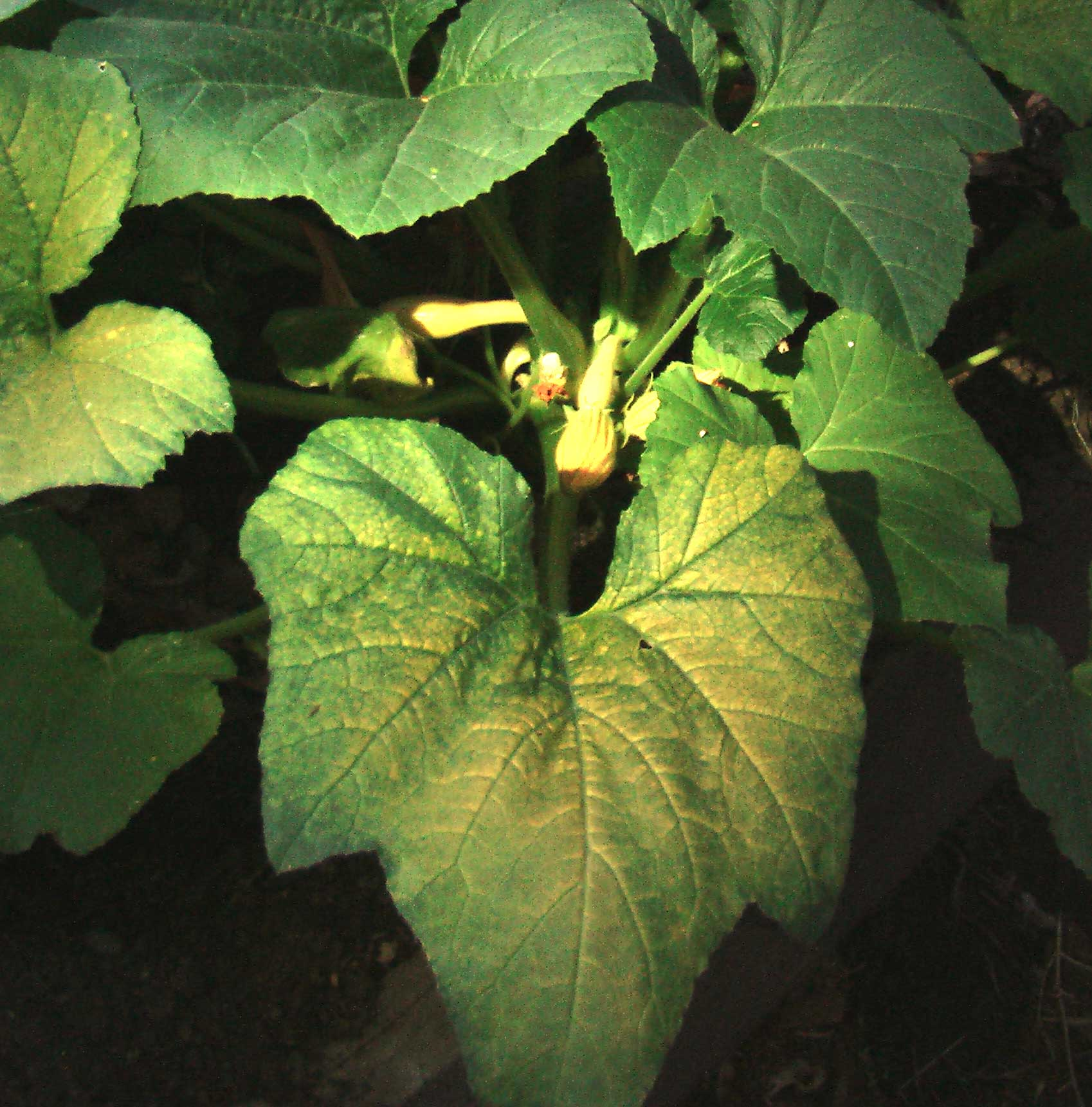 Showing leaf with the yellow mosaic virus on a yellow squash plant. Only two leaves showing the effect.